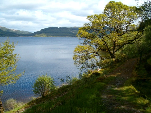 Loch Avich. Where the Loch Avich walk finally reaches the shore of the loch.